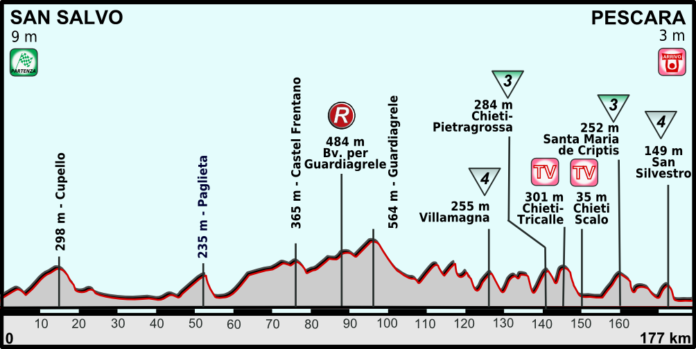 Giro d'Italia 2013 - stage profile # 07